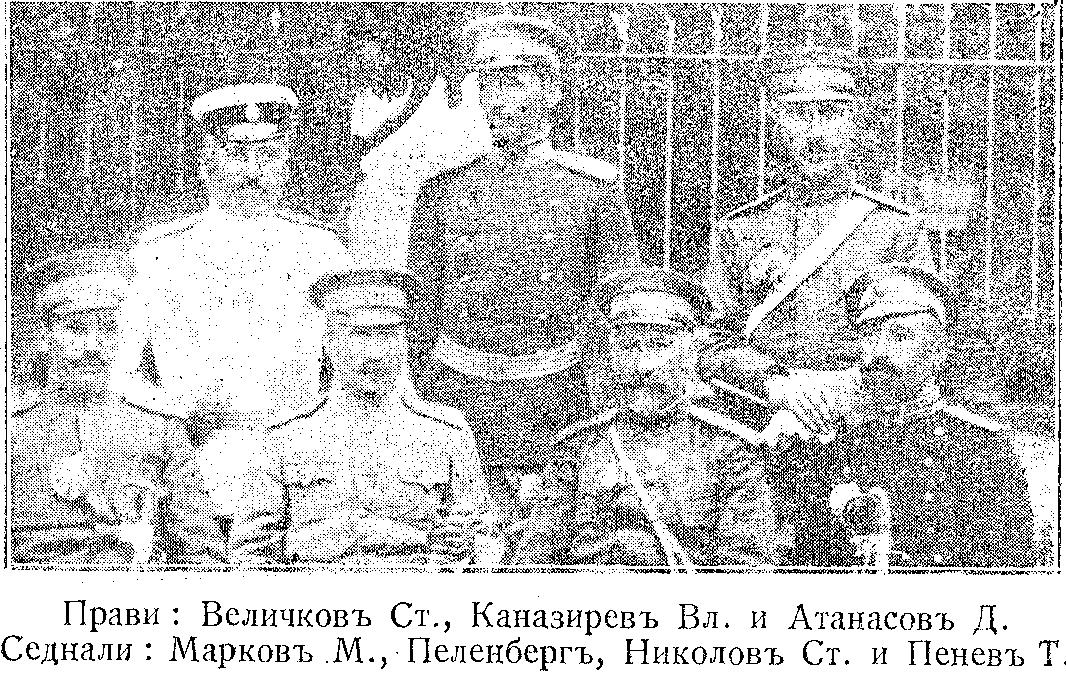 Portrait of Vladimir Kanazirev (up in middle) and other officers from Macedonian-Adrianopolitan Volunteer Corps